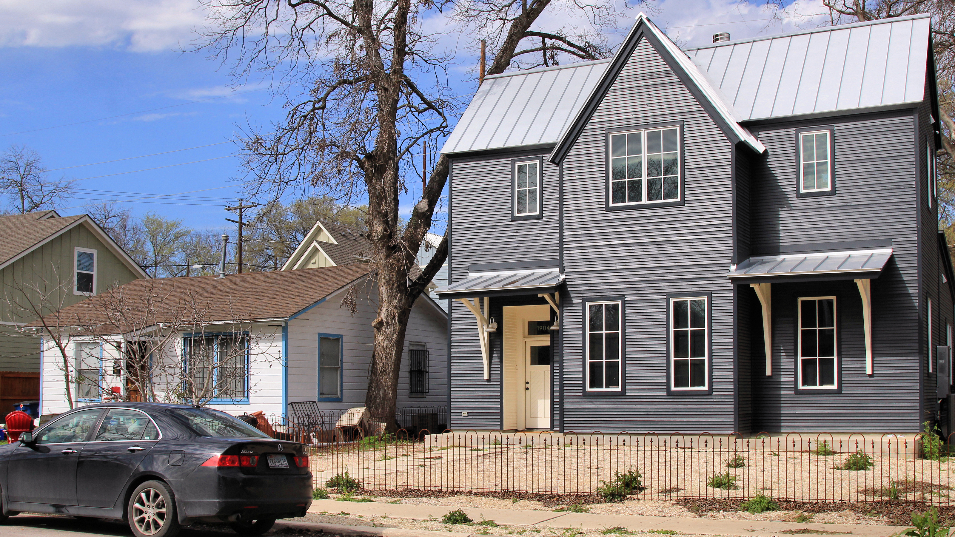 Image shows the gentrification of the once largely Hispanic area of East Austin on Holly Street.